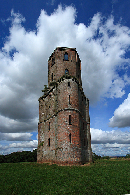 Horton Tower (2), near to Chalbury Common, Dorset, Great Britain.